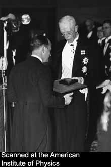 Gustavus Adolphus presenting Nobel Prize to Enrico Fermi on left, at ceremony in Stockholm, Sweden